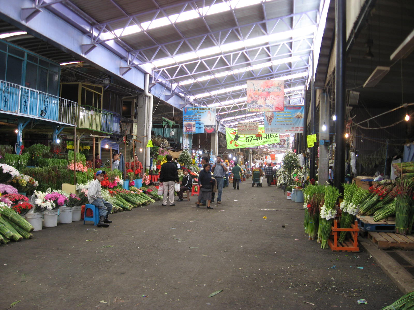 Aisle in the Jamaica market, known for flowers, located near Metro Jamaica in Mexico City